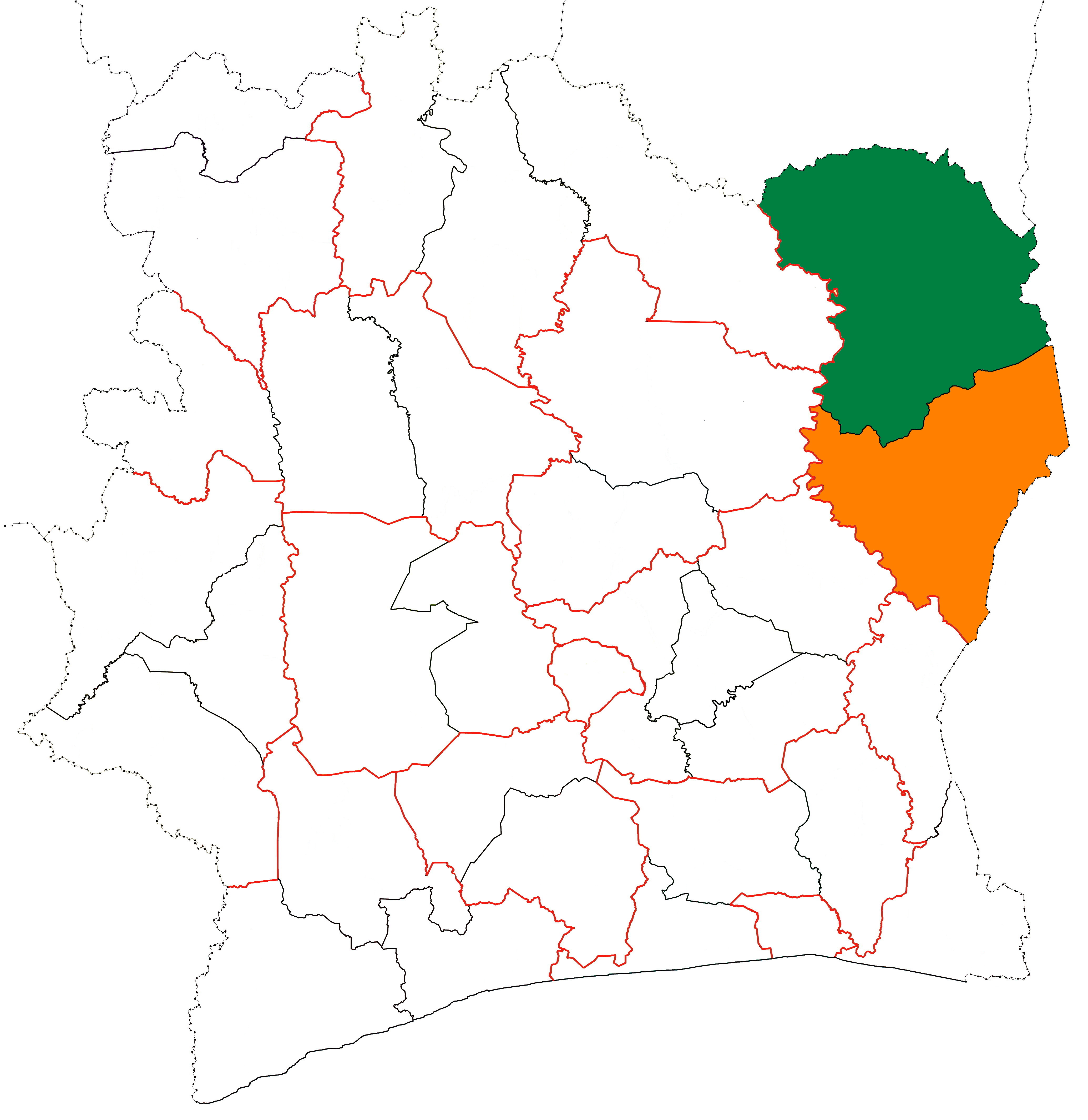 The location of Bounkani region (green) in Côte d'Ivoire. The other shaded areas represent the other parts of Zanzan District.